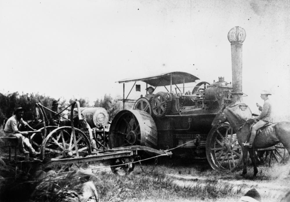 Steam plough operating on Hamleigh plantation, Ingham District, ca. 1888 Fowler Compound steam ploughing engine and single direction ripping plough. (Description supplied with photograph).